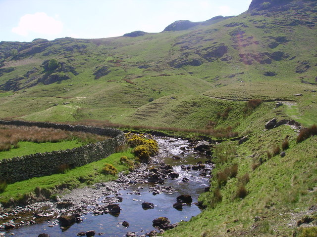 Swindale Beck Ascending by the beck towards Nabs Moor